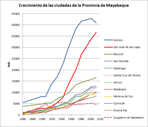 Population of the cities of the Mayabeque province in Cuba